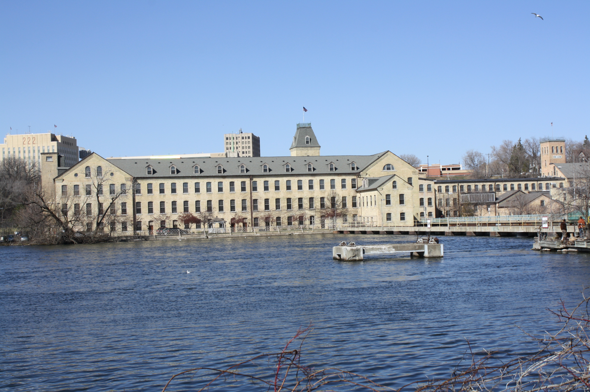 Looking north over the Fox River (Wisconsin) in Appleton, Wisconsin at Fox River Paper Company buildings (now appartments) which are listed on the National Register of Historic Places as the Appleton Locks 1-3 Historic District.